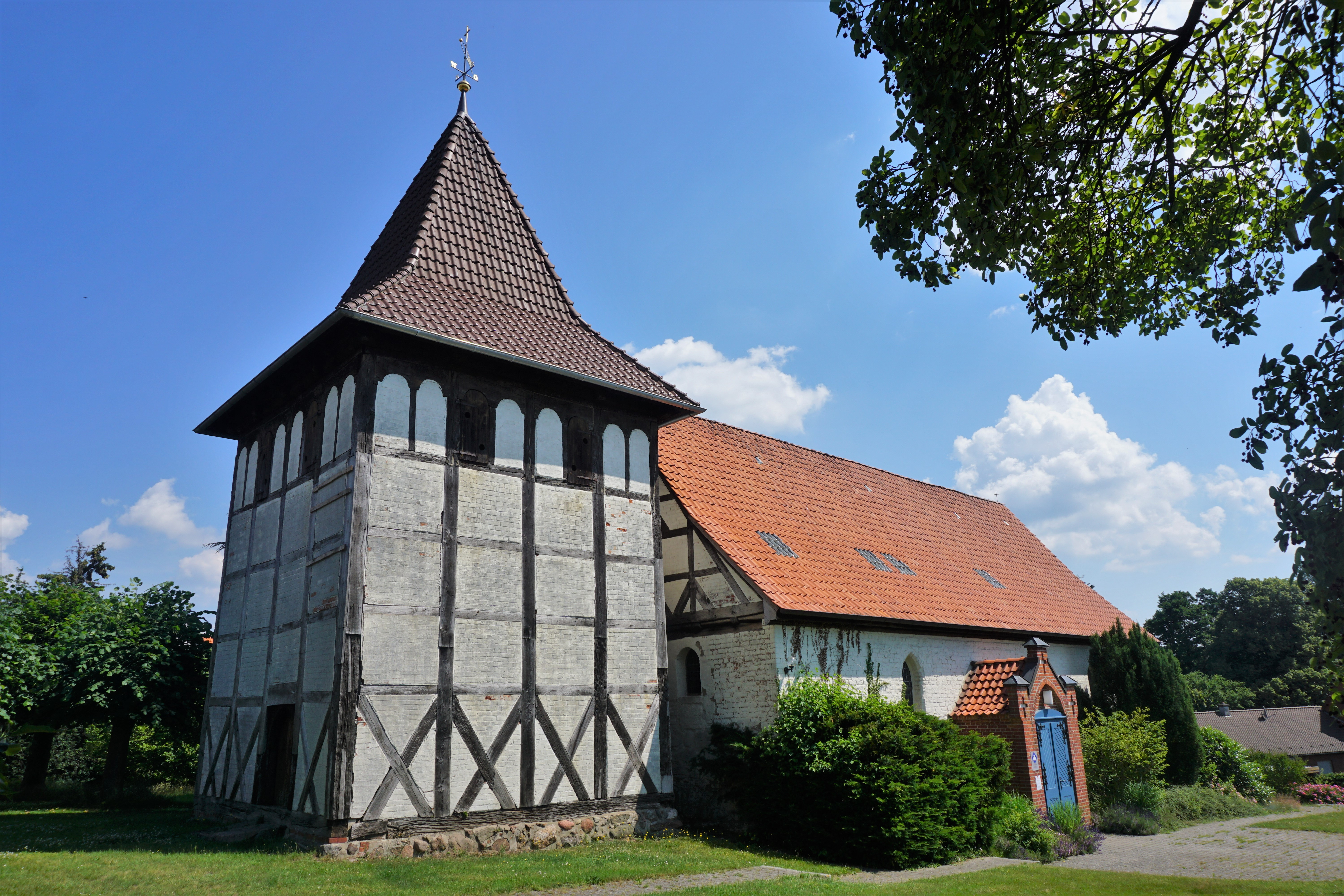 Church of St. George in Barum in the district of Uelzen.